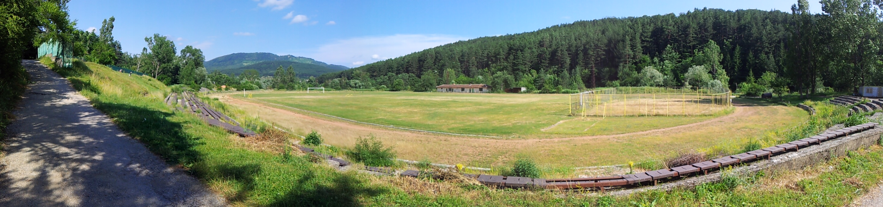 Kotel, stadium